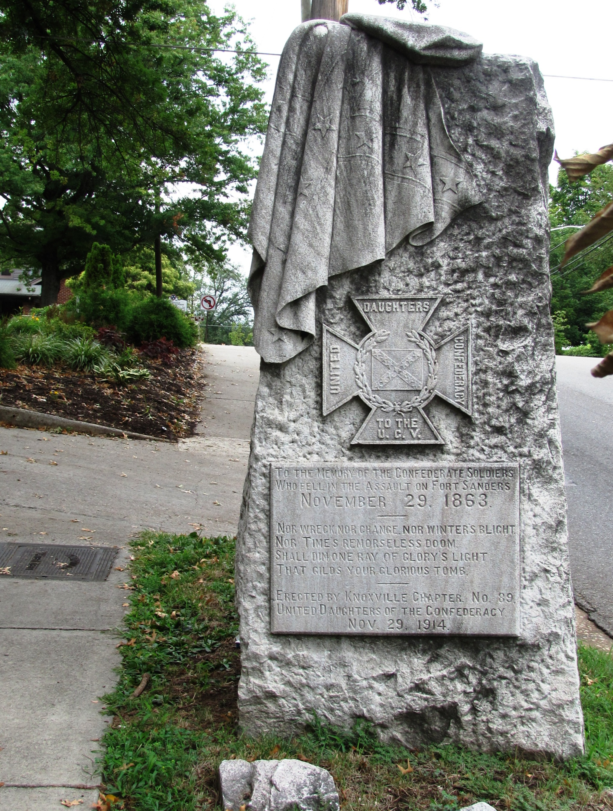 United Daughters of the Confederacy marker along Seventeenth Street in Knoxville, Tennessee, USA, recalling the failed Confederate assault on Fort Sanders on November 29, 1863, at the height of the Civil War. Marker text: To The Memory Of The Confederate Soldiers Who Fell In The Assault On Fort Sanders November 29, 1863 - Nor Wreck, Nor Change, Nor Winter's Blight, Nor Times Remorseless Doom, Shall Dim One Ray Of Glory's Light That Gilds Your Glorious Tomb. - Erected By Knoxville Chapter No. 89, United Daughters Of The COnfederacy, Nov. 29, 1914.